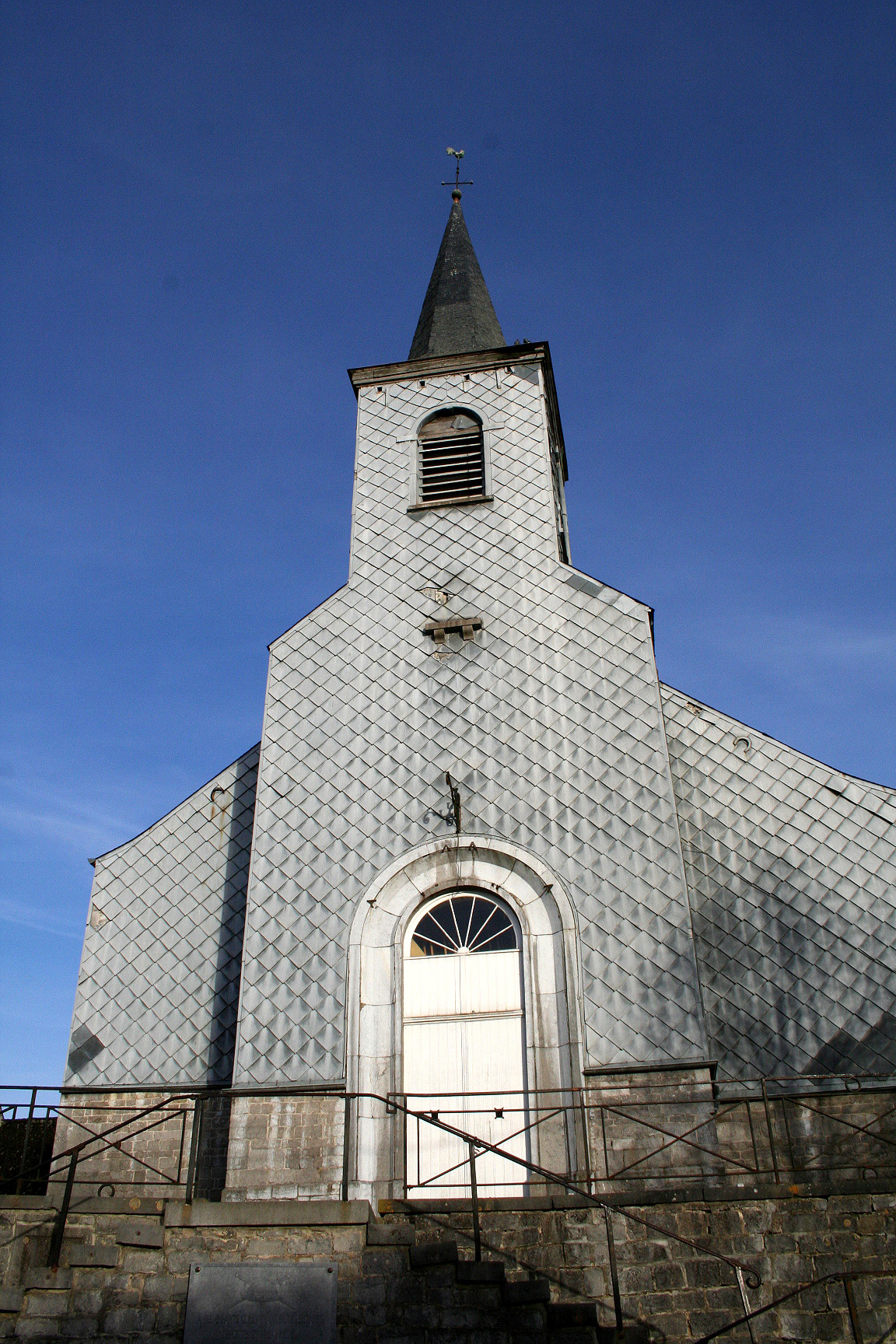 Scy (Belgium), the St. Martin's church (XVIIth century).